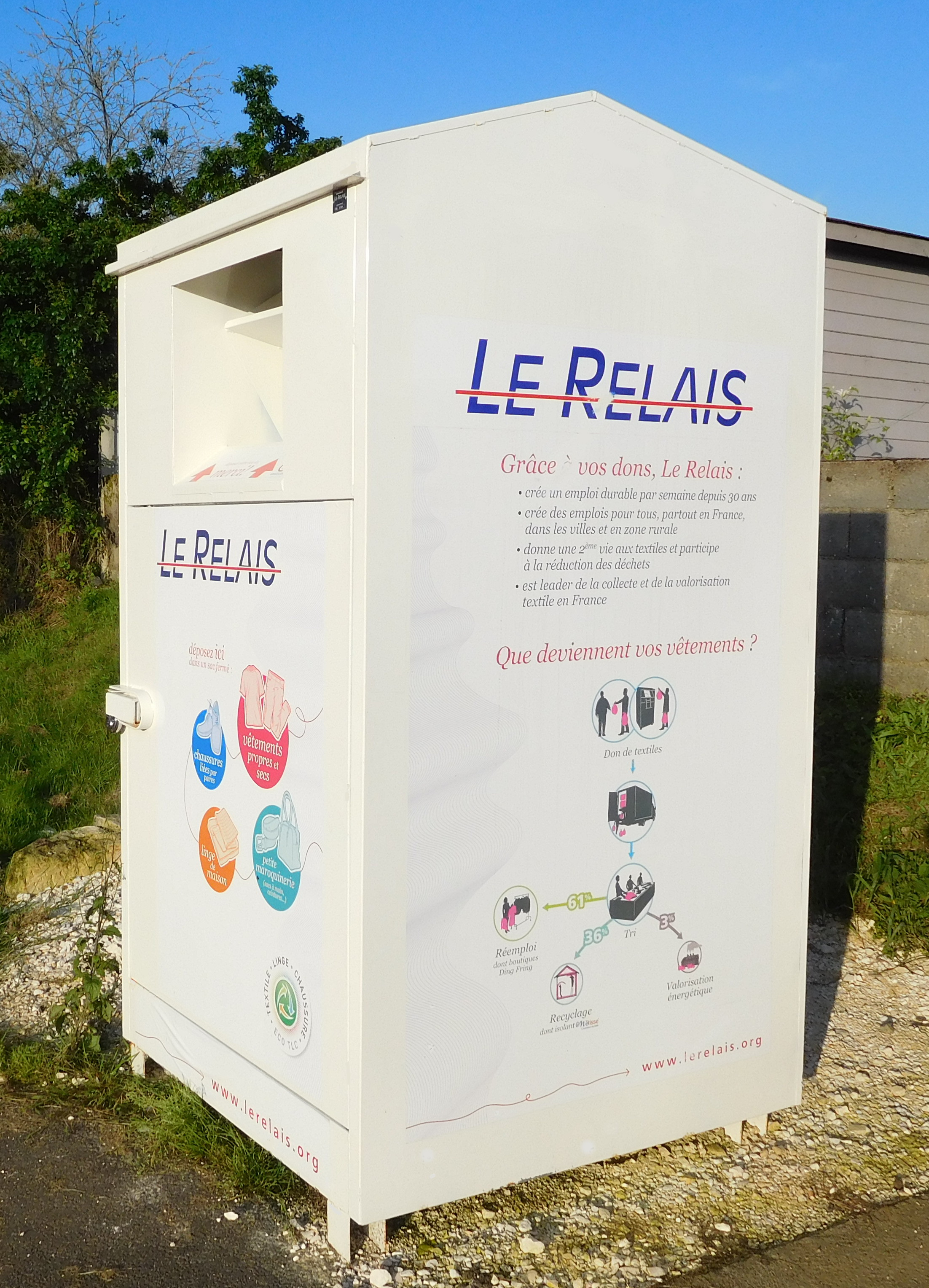 Le Relais ( container for recycling textile, clothes, shoes and more in France.